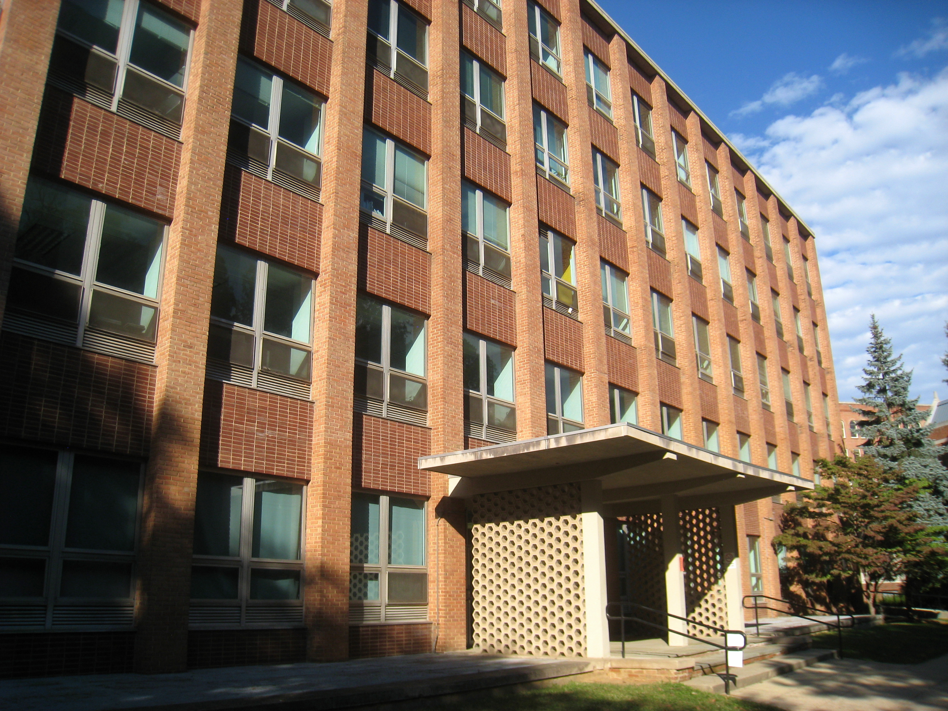 Georgetown University, Washington, DC, USA.